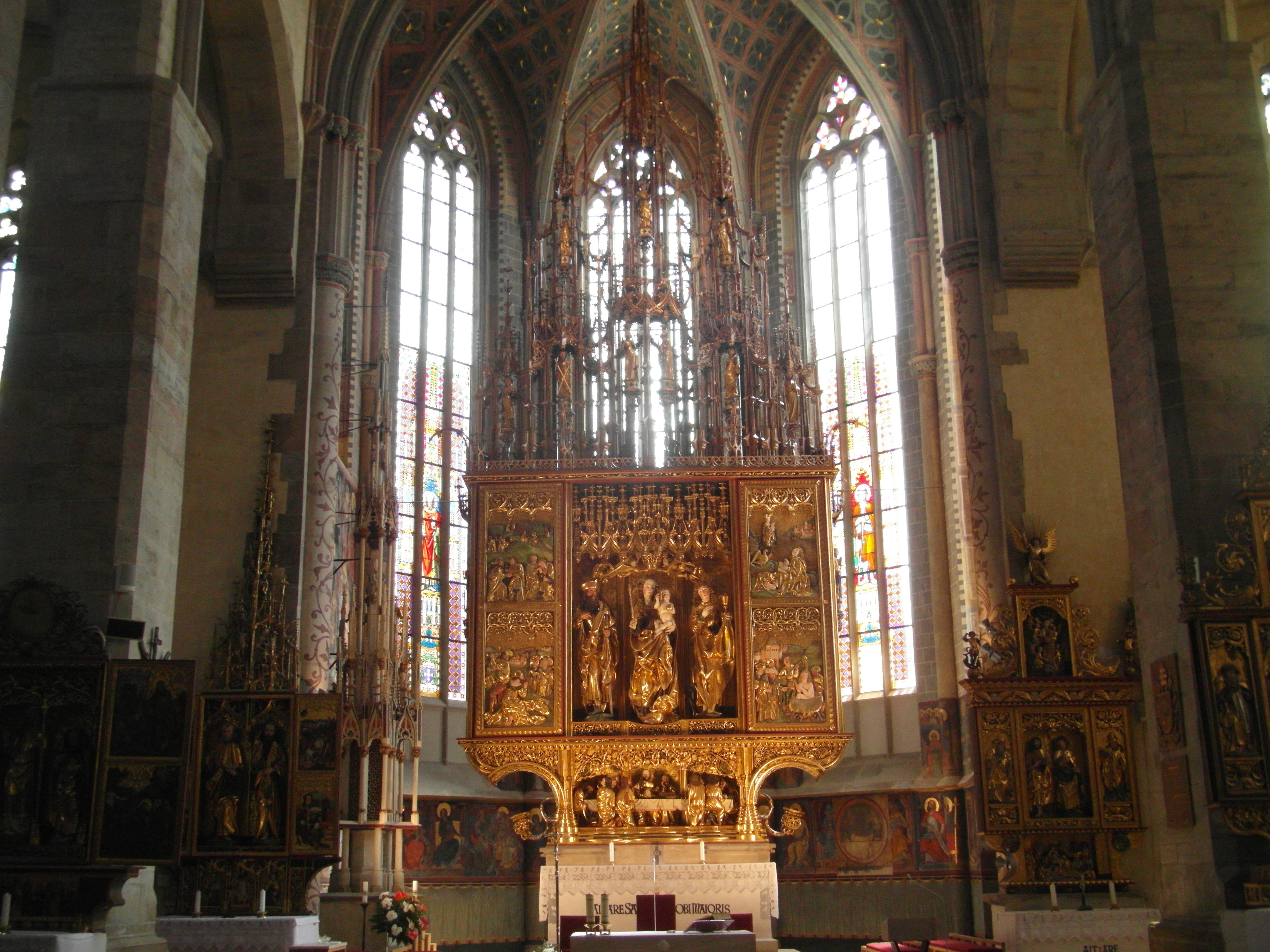 St. James, Levoča, Main altar from the workshop of Master Paul of Levoča, highest wooden altar in the world, 1517